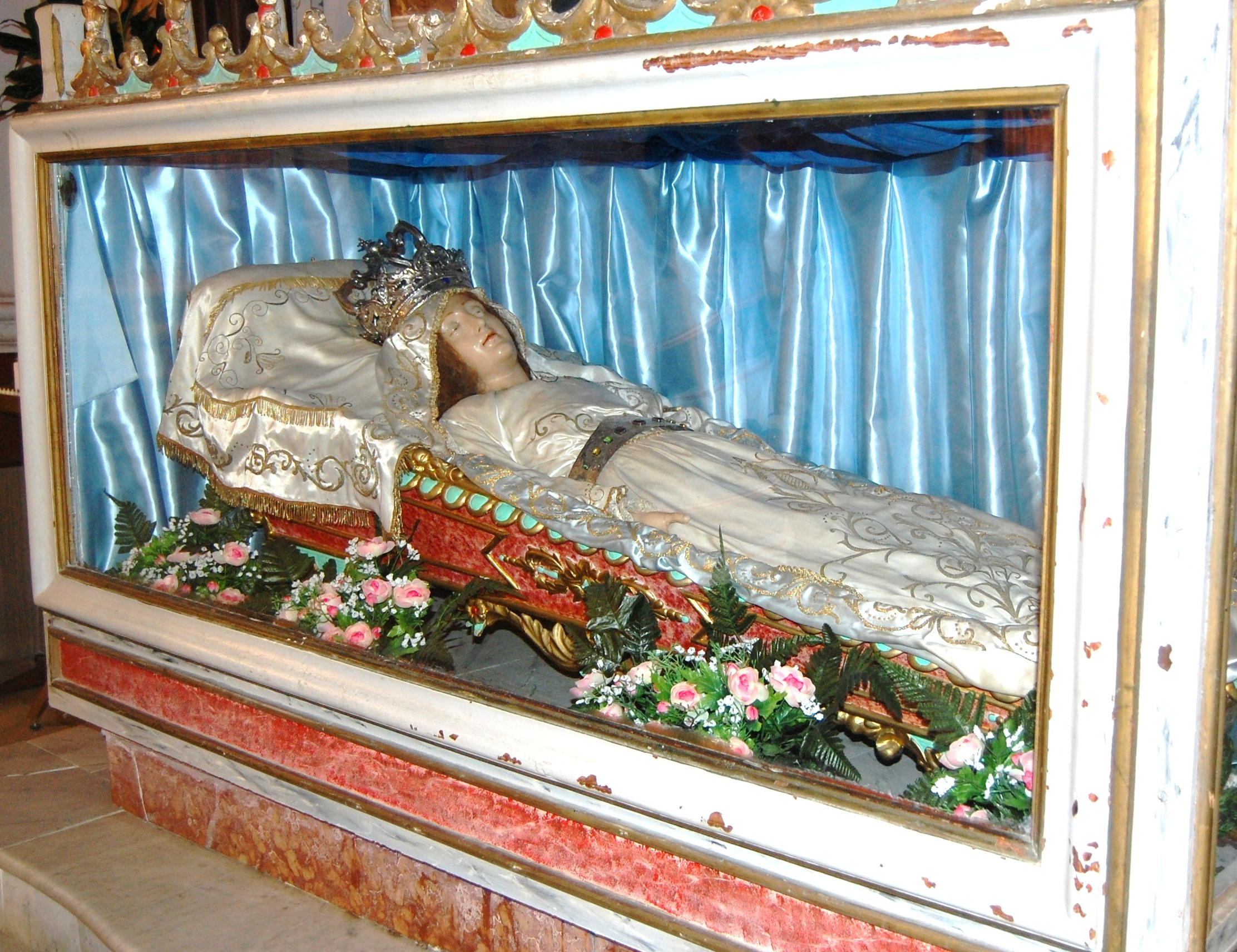 L'urna della Vergine dormiente (la dormitio Virginis), statua in cera, opera del XVII sec. conservata presso la chiesa Madre di San Cataldo (provincia Caltanissetta).jpg